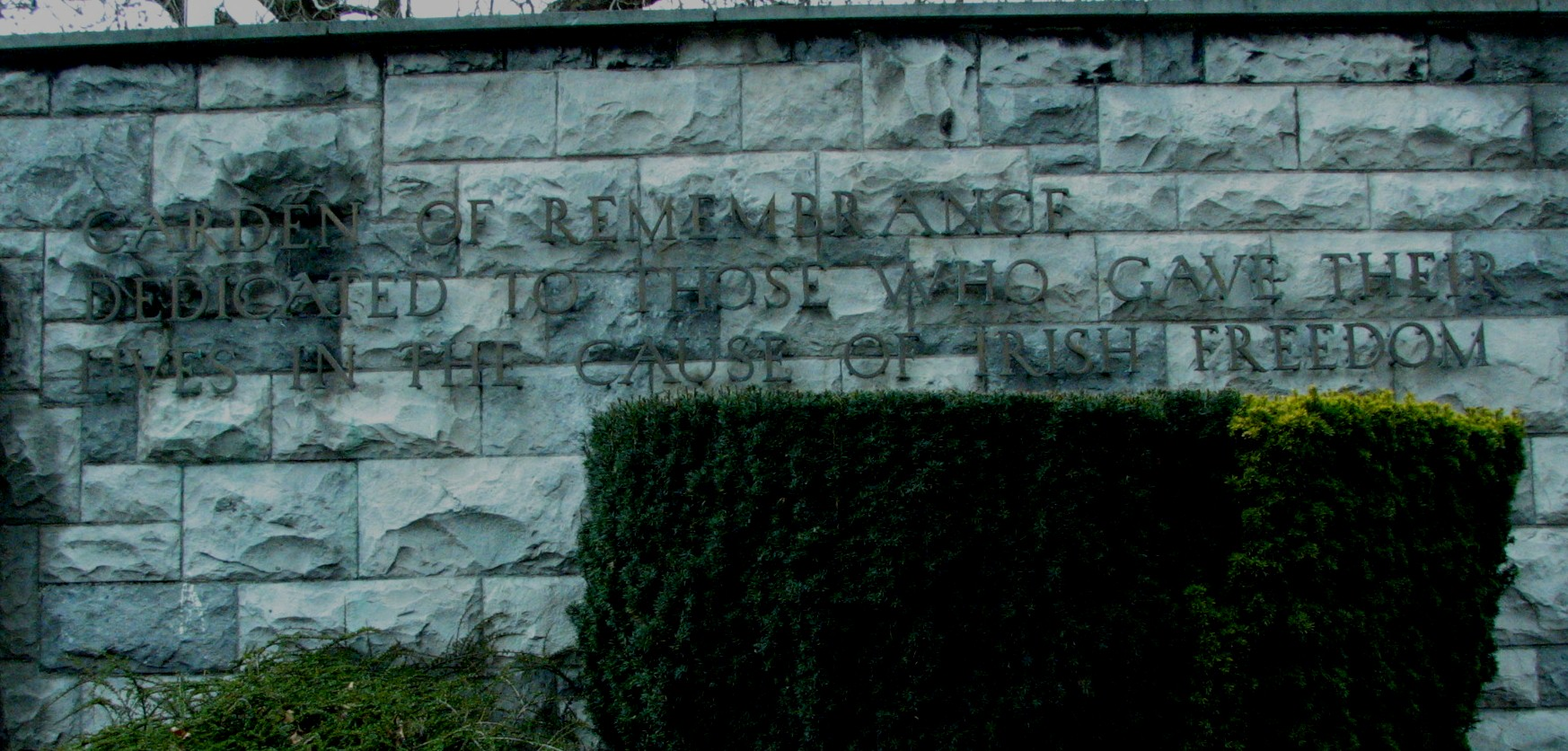 The Front entrance to the Garden of Remembrance, Dublin